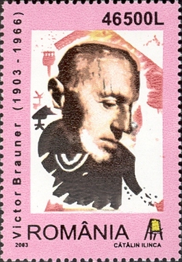 Stamps of Romania, 2003